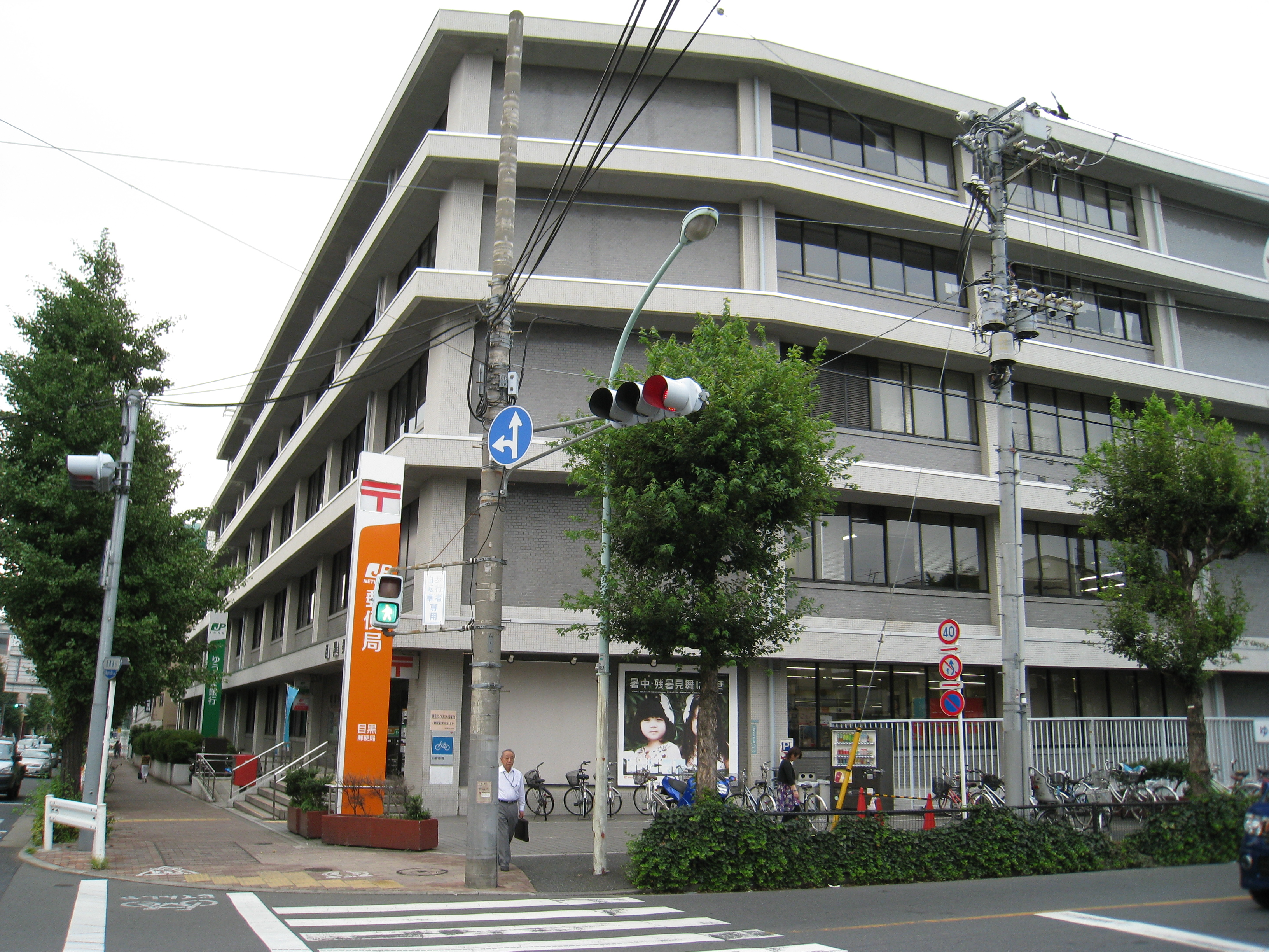 Meguro postoffice.Meguro-ku,Tokyo,Japan